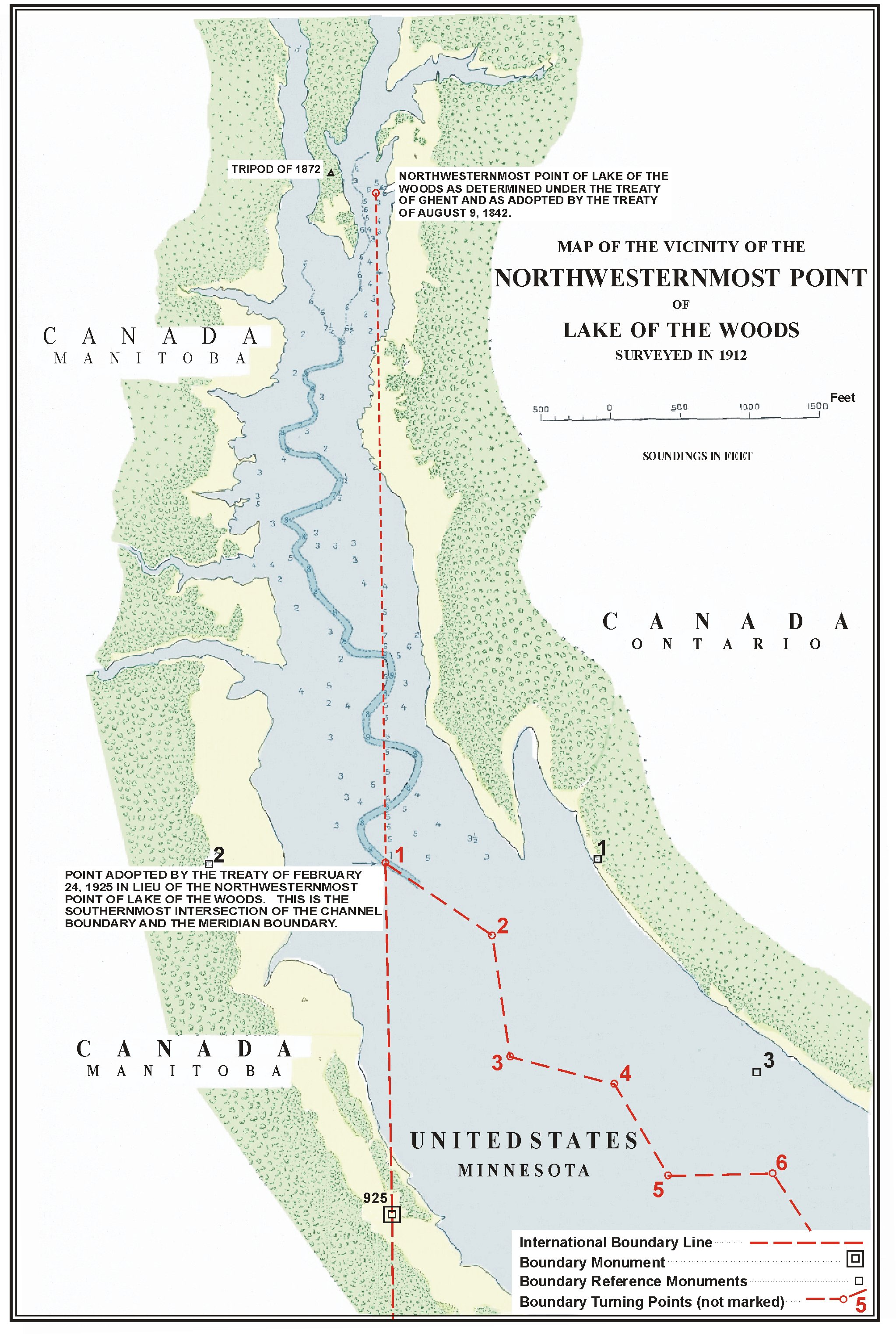 This point lies at the corner of the Northwest Angle of Minnesota and is thus the northernmost point in the lower 48 United States. The point became is the basis for the border between Manitoba and Ontario as well.